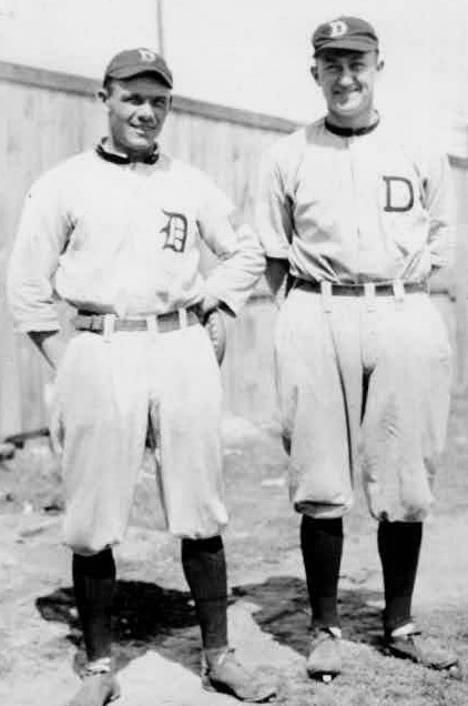 Professional baseball players Joe Cobb (left) and Ty Cobb (right) as teammates on the Detroit Tigers in 1918. Despite having the same last name, the players were not related.